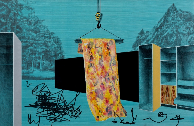 Painting "The Exodus from Egypt" (2008) by Lithuanian artist Vytautas Tomasevicius. 90 × 140 cm, acrylic, charcoal, pencil on canvas.